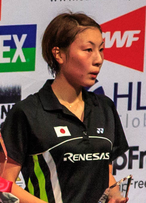 2014 BWF US Open Grand Prix Gold Badminton Championships...WS Final...Beiwen Zhang (USA) def Kana Ito (JPN) 8 & 17...